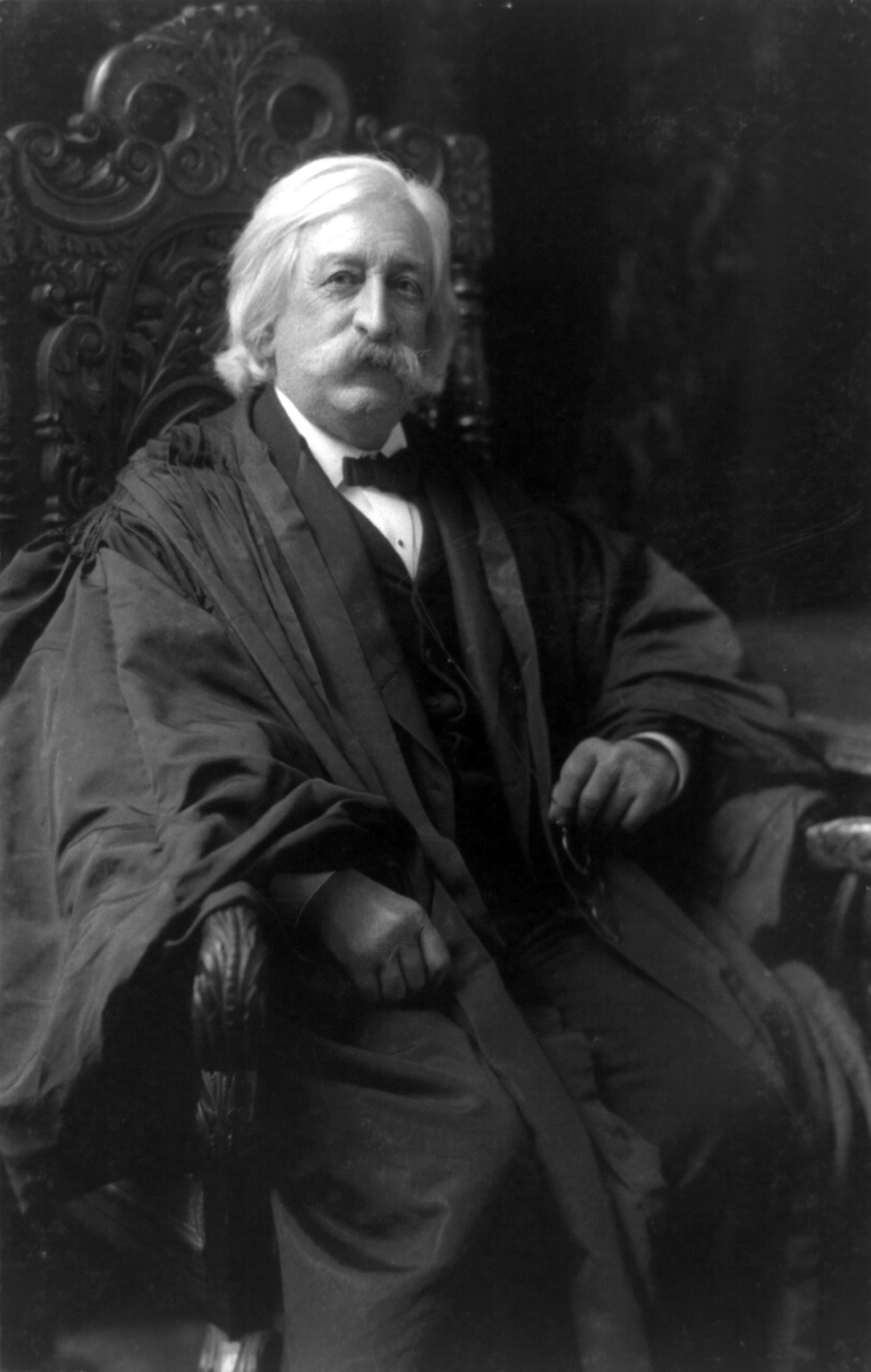 Melville Fuller, Chief Justice of the United States 1888–1910